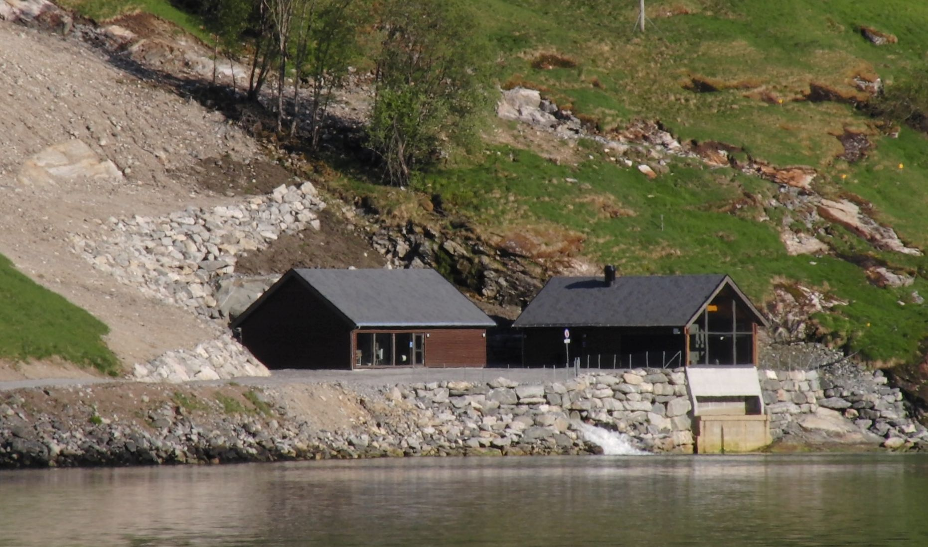 Berge (til venstre) og Bjåstad kraftverk.